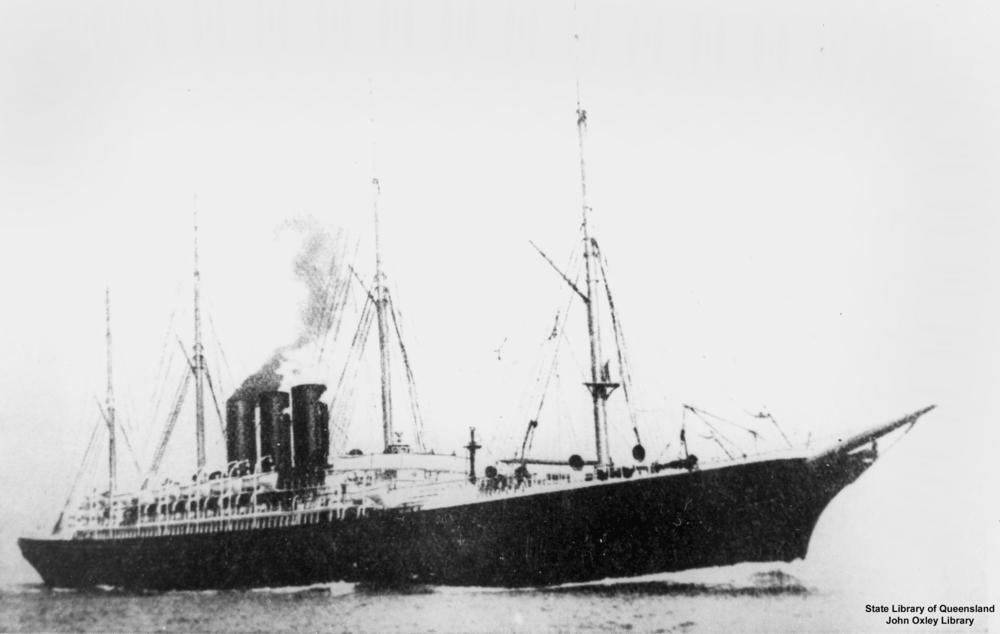 The 8,415 GRT trans-Atlantic passenger liner City of Rome, built by the Barrow Ship Building Co in 1881. She was the second largest ship of her time: Great Eastern being the largest. Barrow SBC built her for Inman Line to compete for the Atlantic 'Blue Riband', but she was too heavy and under-powered. She also had less cargo capacity than Inman had ordered. Inmans returned her to Barrow SBC, who transferred her to Anchor Line. She was scrapped in 1902.